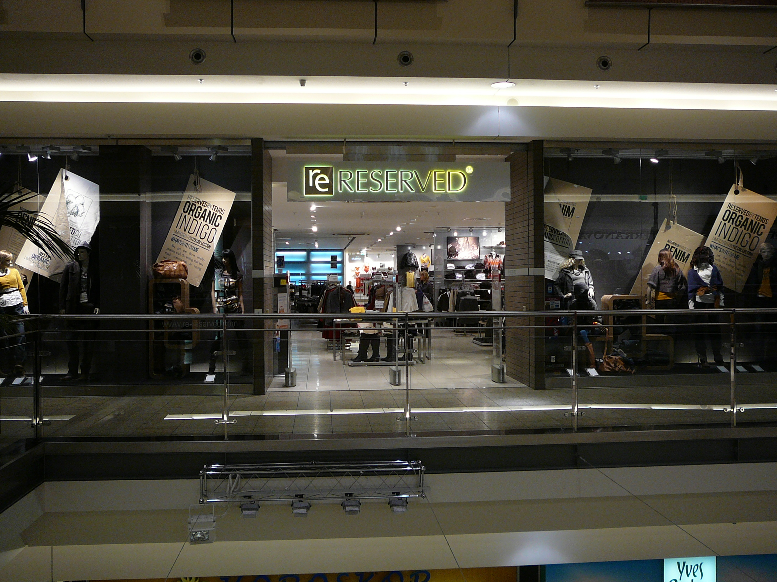 Reserved in Vaňkovka in Brno